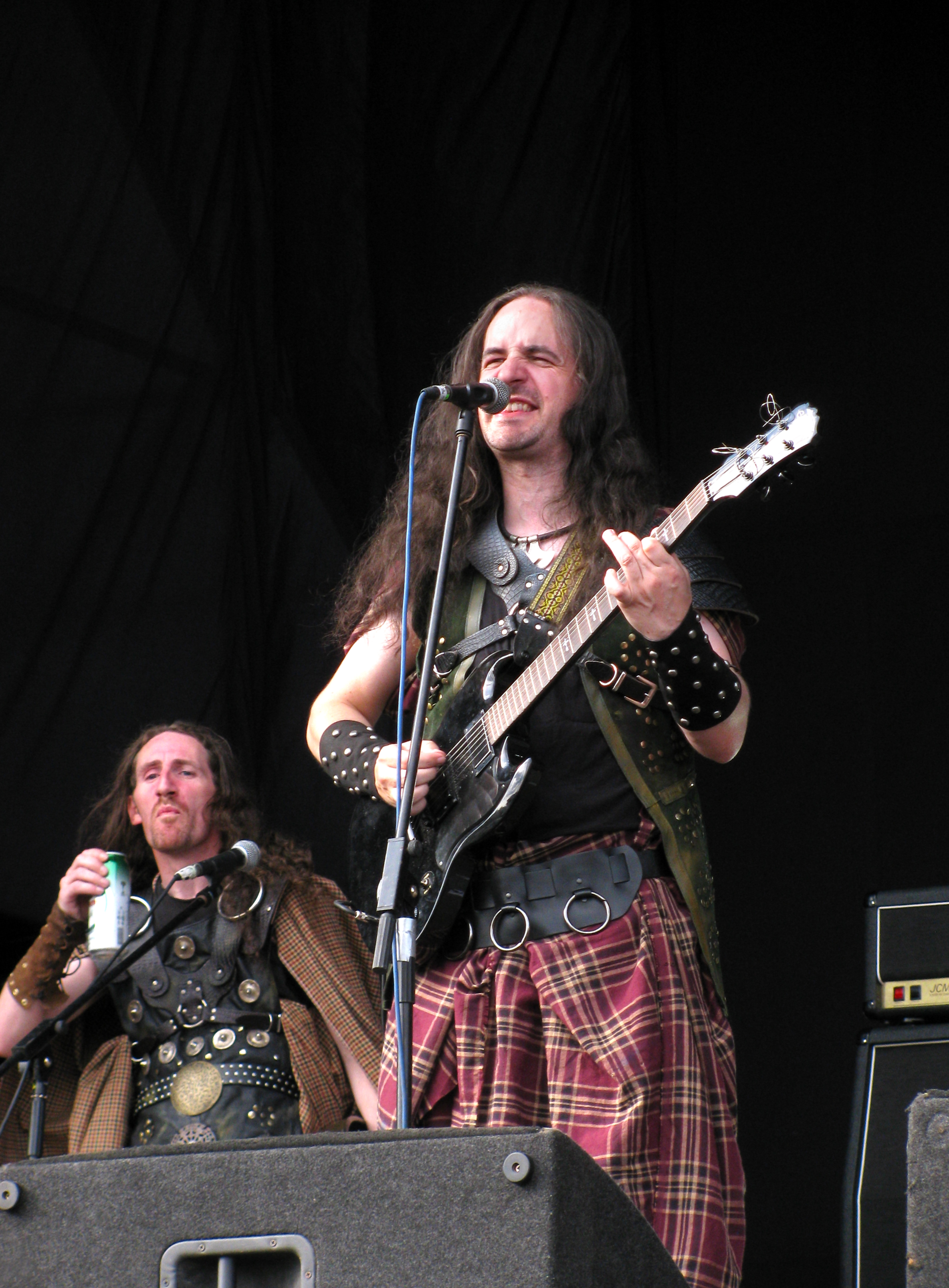 Cruachan playing at Global East Rock Festival 2010